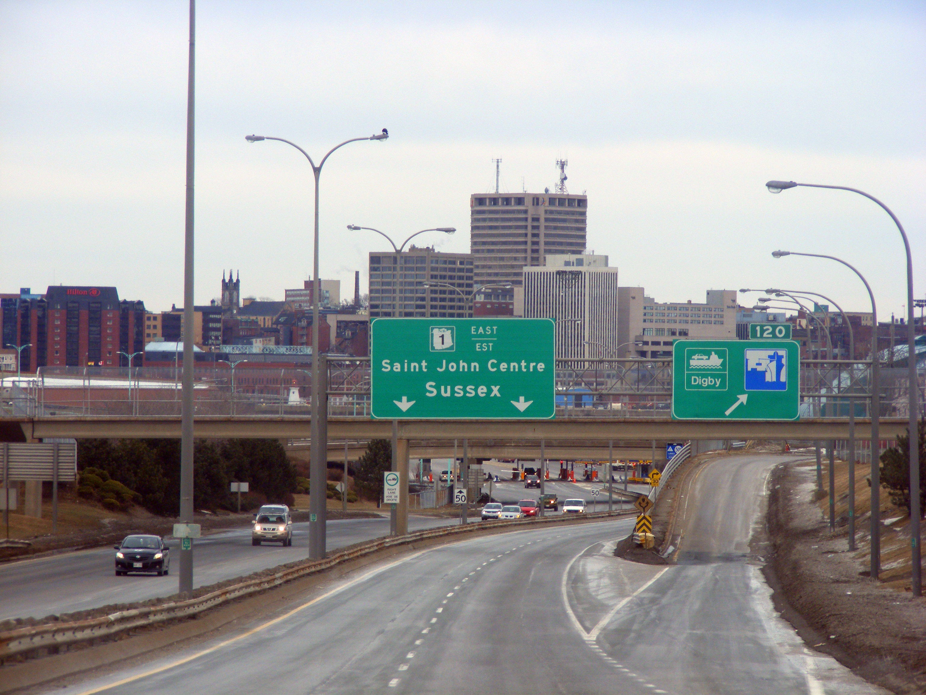 Photograph of Uptown Saint John, New Brunswick